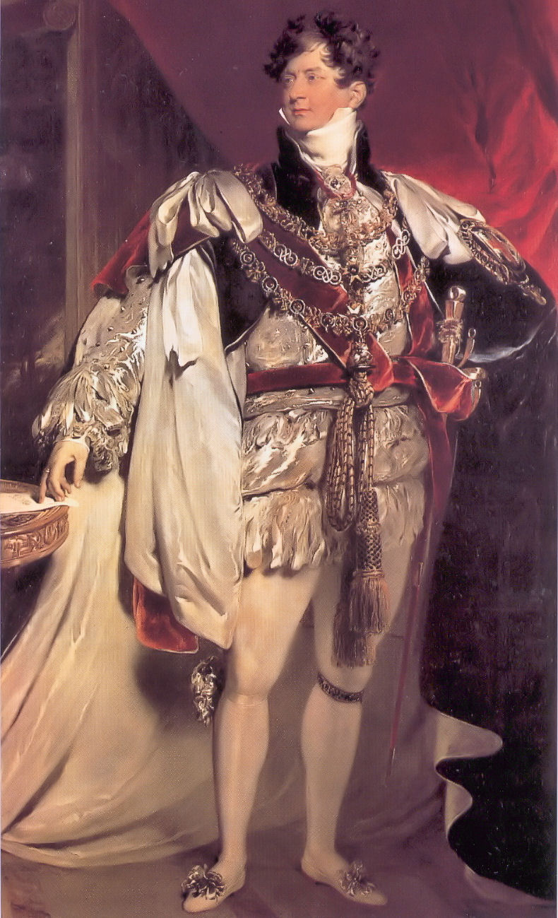 King George IV depicted wearing the robes of the Order of the Garter and four collars of chivalric orders: the Golden Fleece, Royal Guelphic, Bath and Garter.